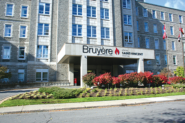 Saint-Vincent Hospital main entrance